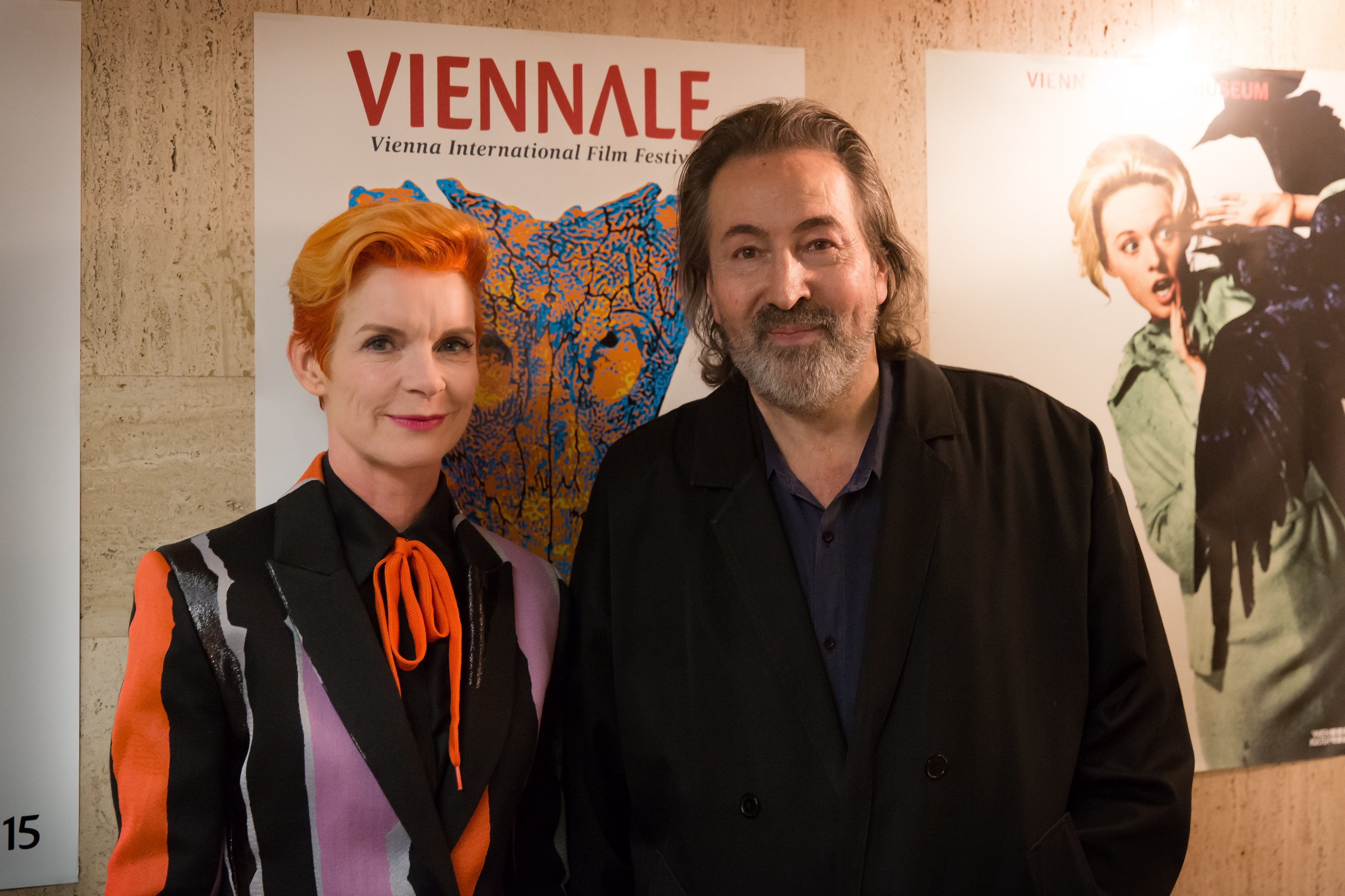 Sandy Powell and Hans Hurch, opening evening of Vienna International Film Festival 2015 at Gartenbaukino in Vienna, Austria.